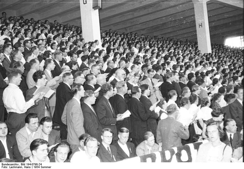 Billy Graham in Duisburg, Sommer 1954